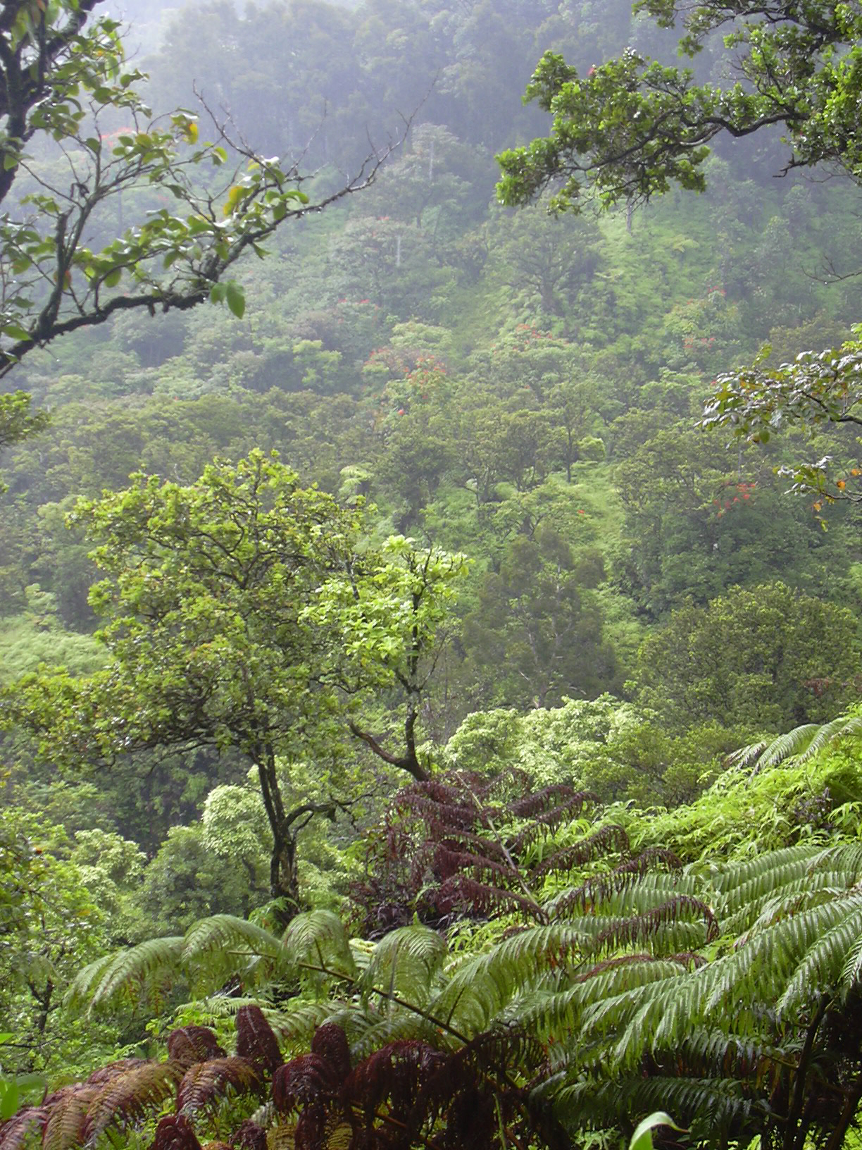 Bobea elatior (habit). Location: Maui, Kopiliula